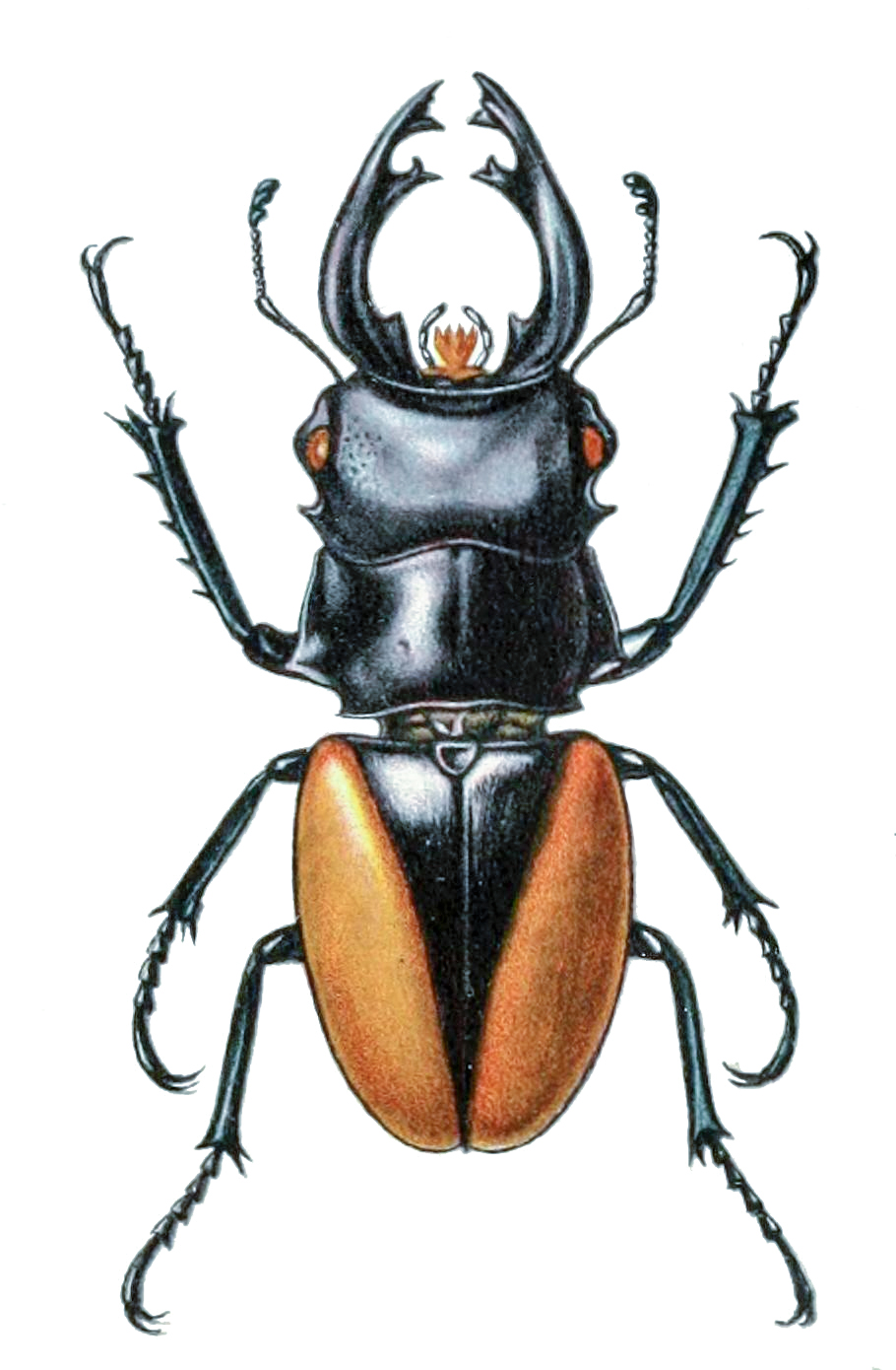 Odontolabis cuvera male extracted from plate Published in India by a not-for profit organization registered in India before 1947